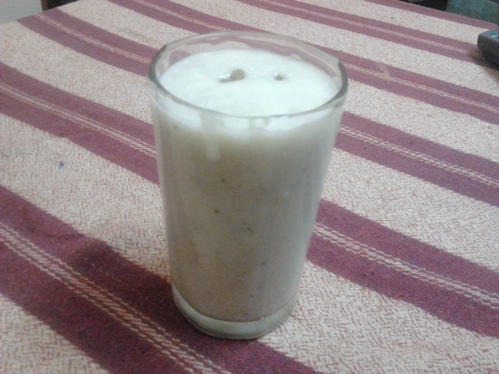 A soft-drinking Item with Milk and flattened rice